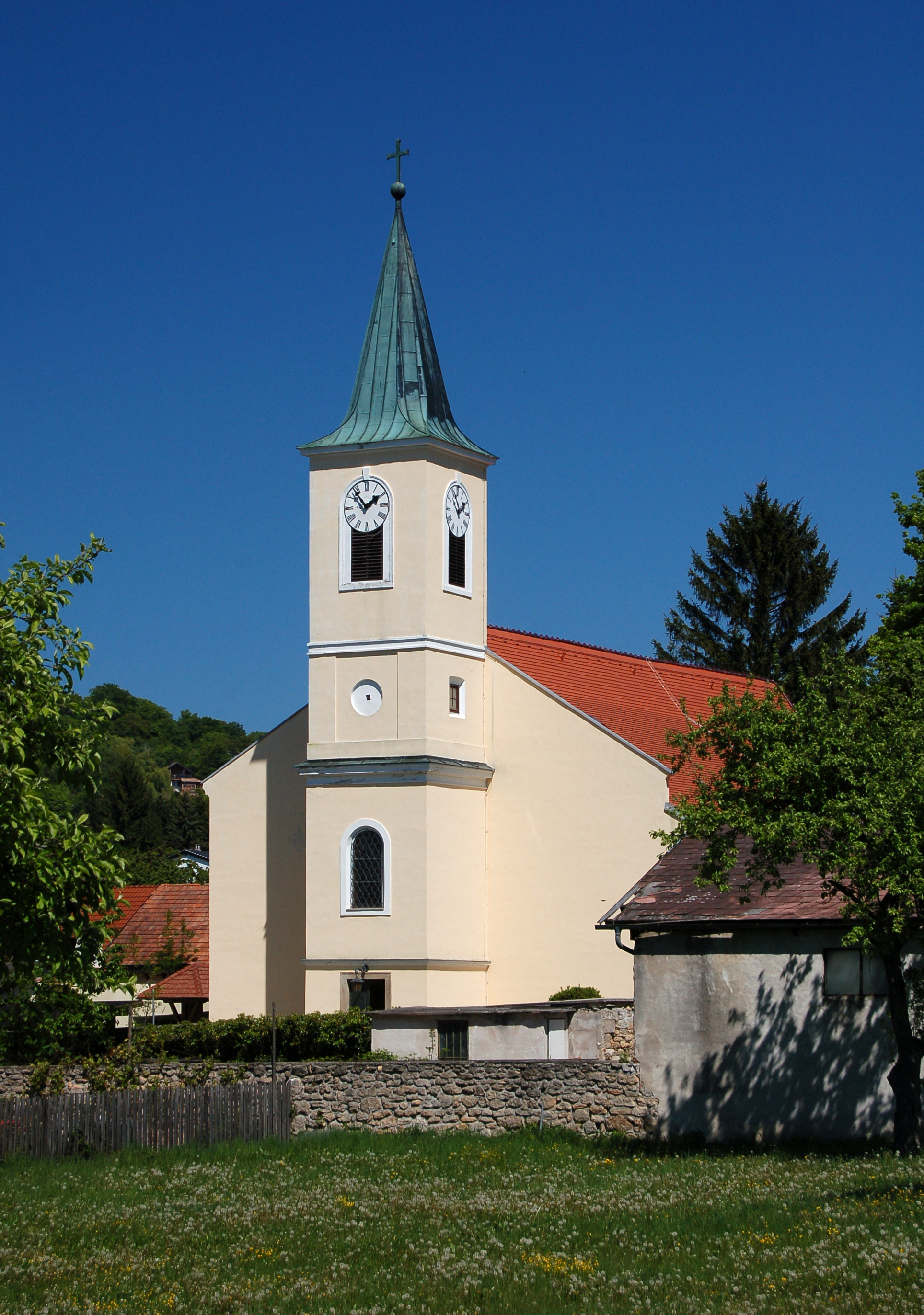 The catholic parish church Saint Laurenz in Hernstein, Lower Austria, is protected as a cultural heritage monument.